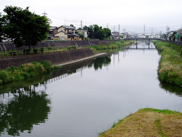 Tomoe River in Shimizu-ku, Shizuoka, Japan.